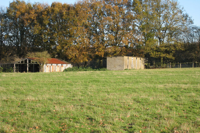 Hopper huts at Blue Barn Oast, Cranbrook Road, Goudhurst, Kent